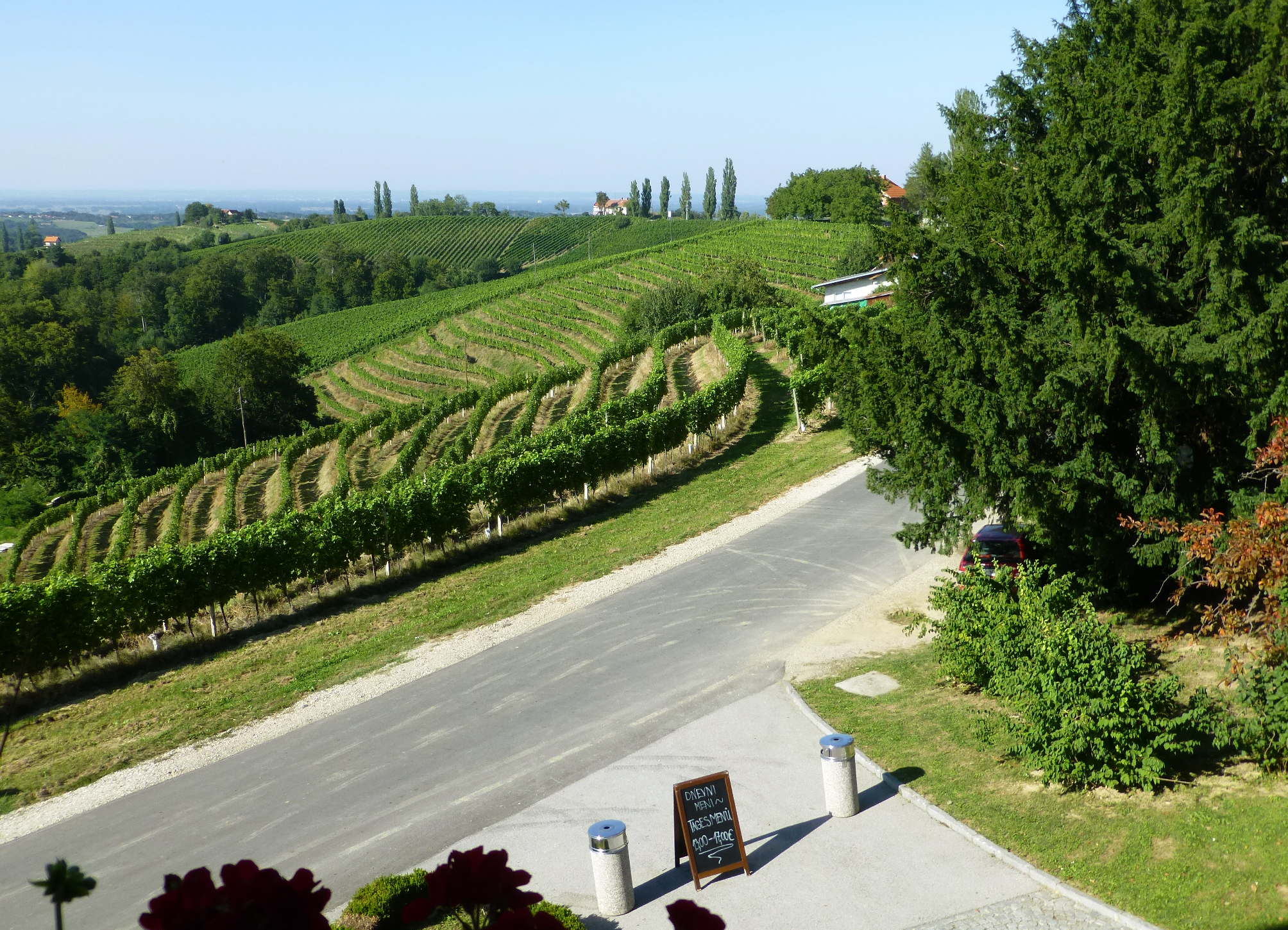 View of vineyards since Hotel Jeruzalem, Ormoz Municipality. Close to the famous Jeruzalem.